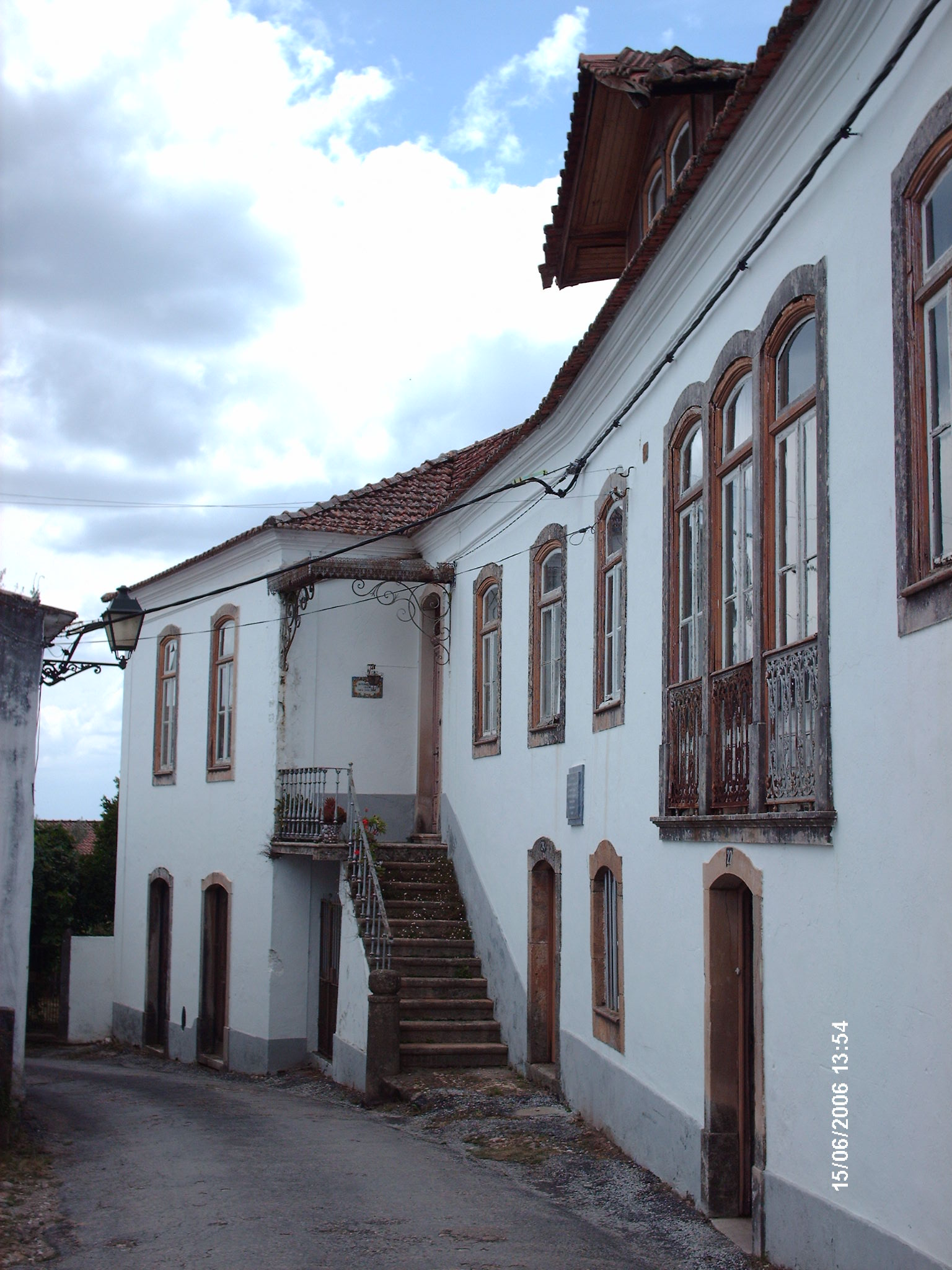 Casa da Rua Torta - Historical building in the town of Cernache do Bonjardim, Portugal